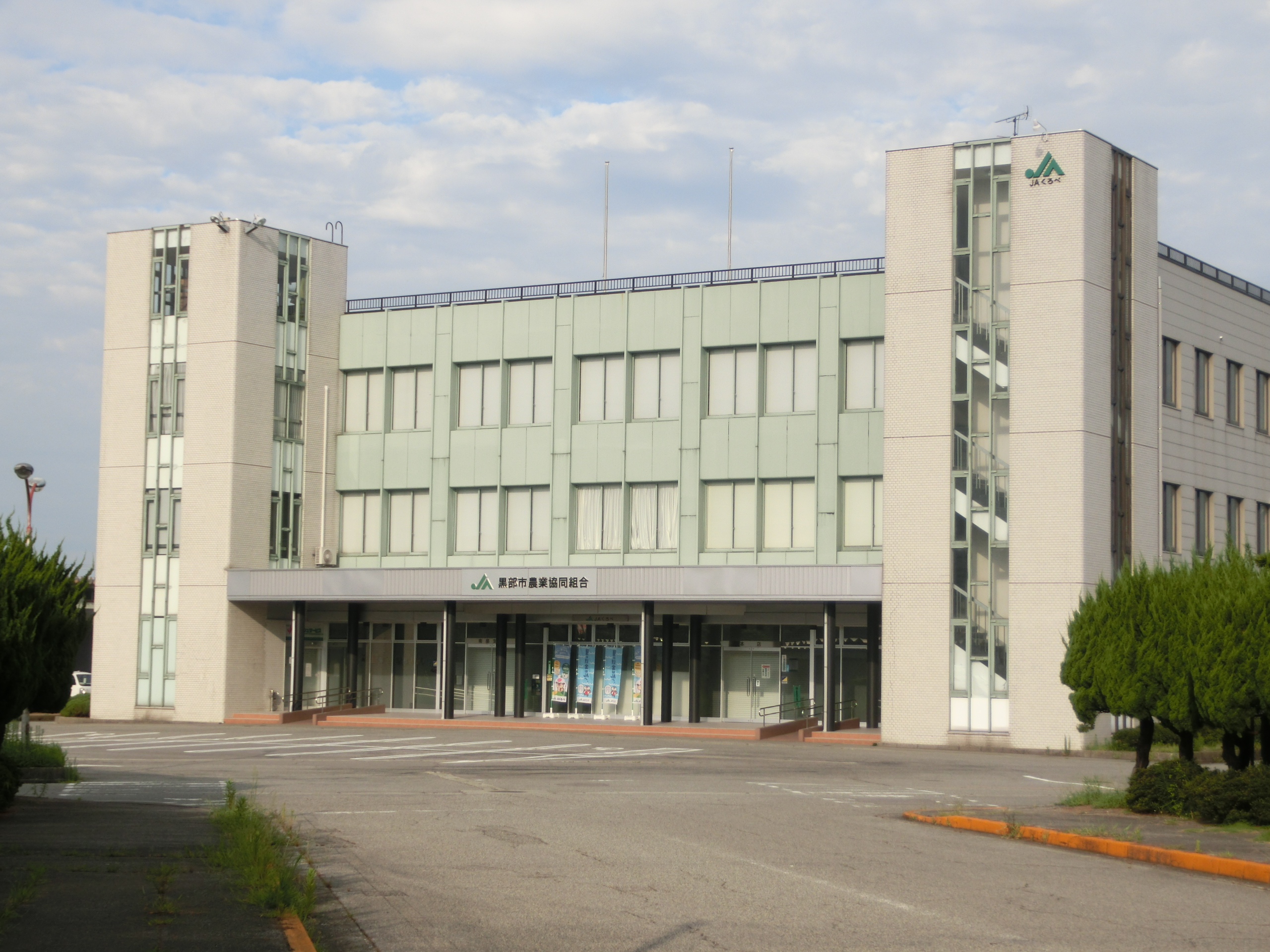 JA Kurobe Headquarters